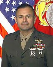 Official photo of U.S. Marine Corps Brigadier General Michael J. Aguilar